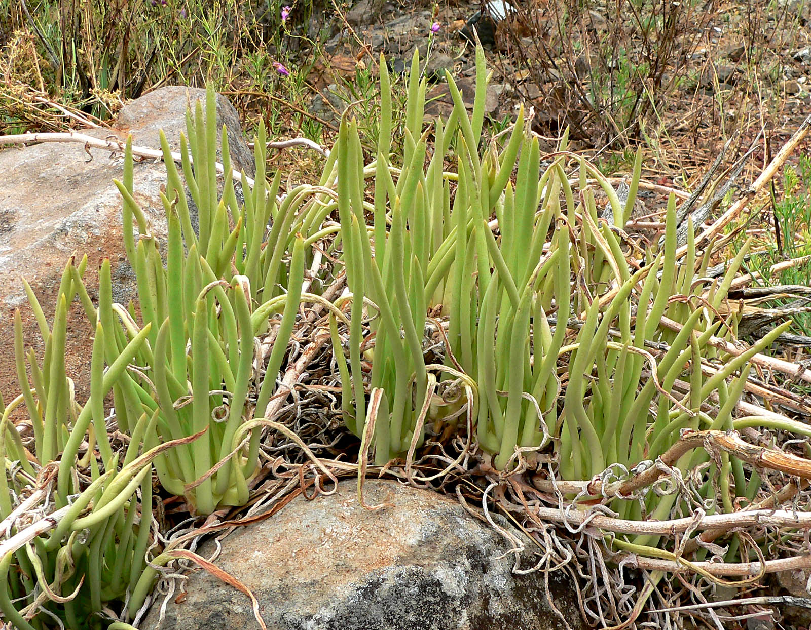 Photo of Dudleya edulis at the Regional Parks Botanic Garden